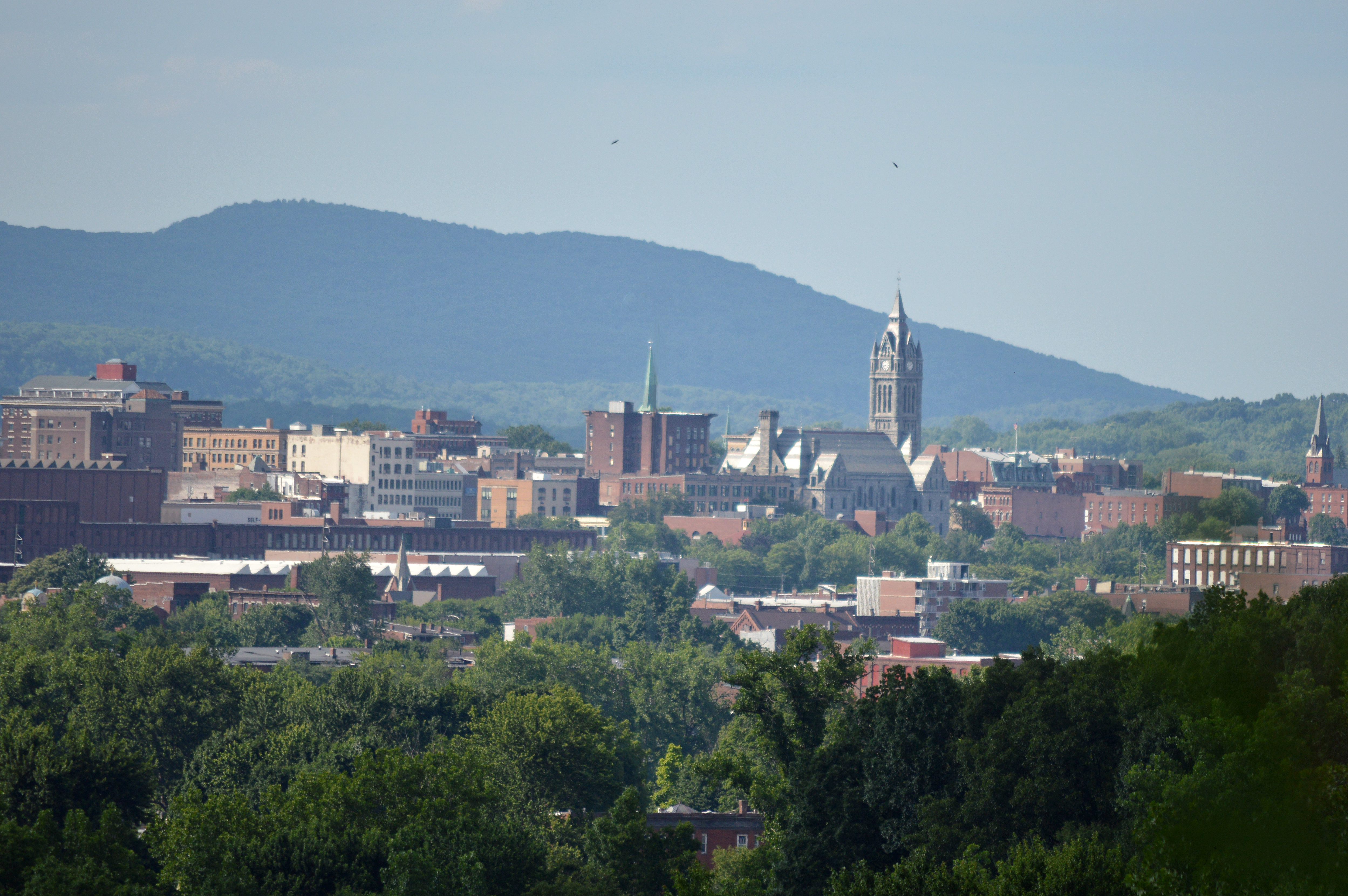 The skyline of Holyoke, Massachusetts, as seen from Chicopee, in the background the Mount Tom Range is visible, specifically Whiting Peak (left) and Mount Nonotuck (right). In the foreground is Holyoke City Hall, along with the Smith Building to its left, and the Caledonia Building to its right.